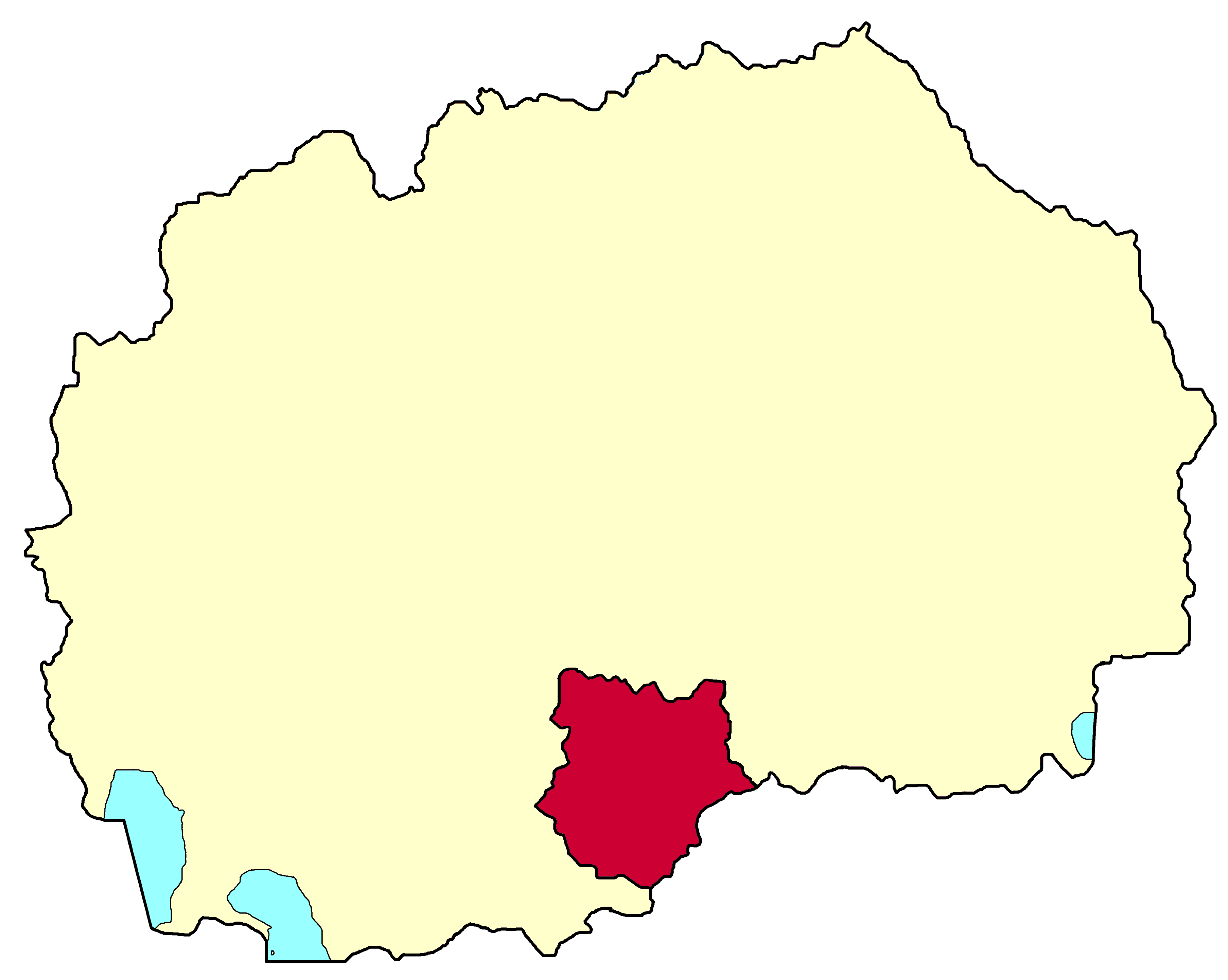 The region of Mariovo in the Republic of Macedonia (red)